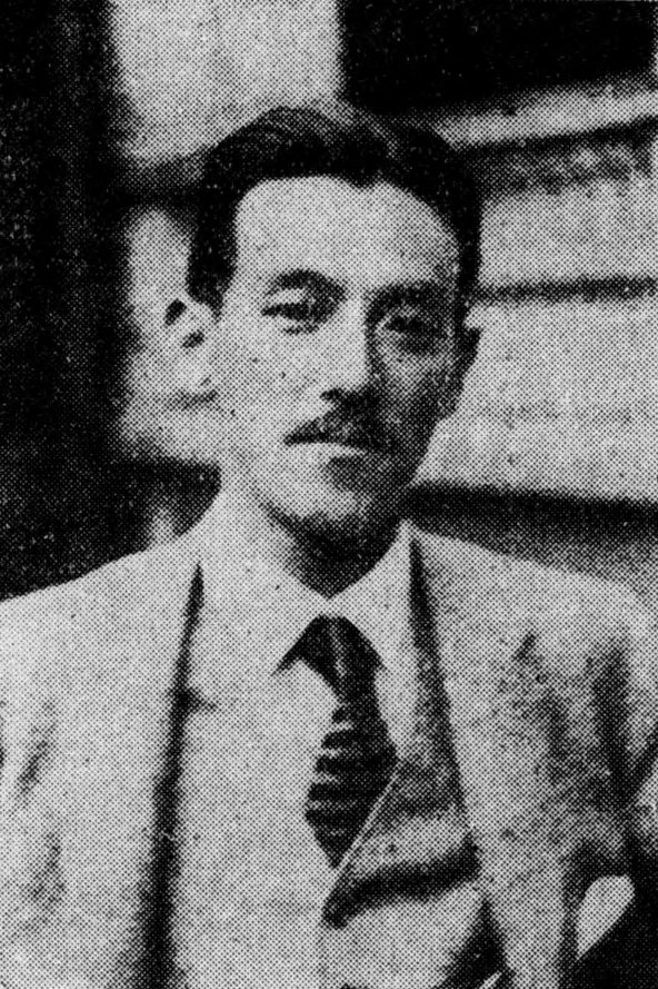 Morishige Takei